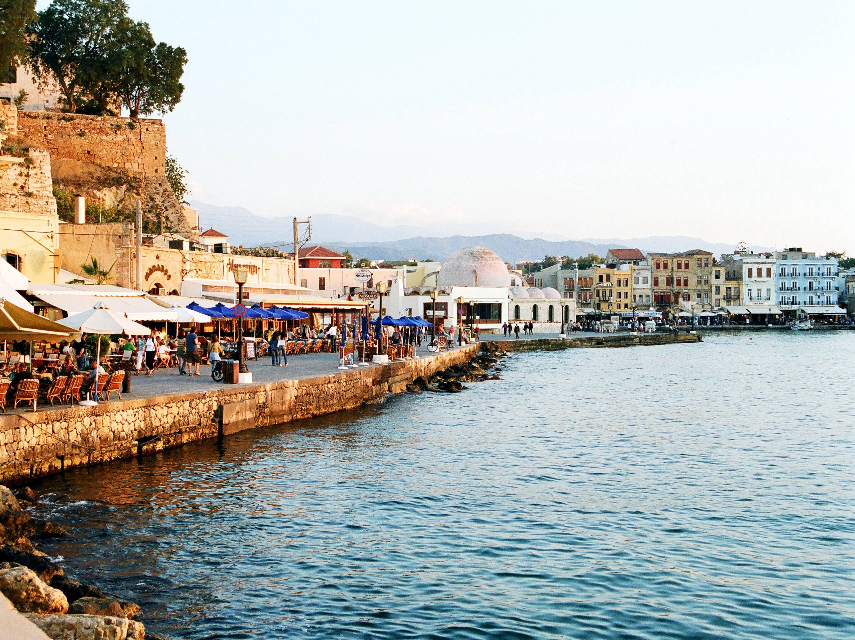 Harbour of Chania, Crete, Greece